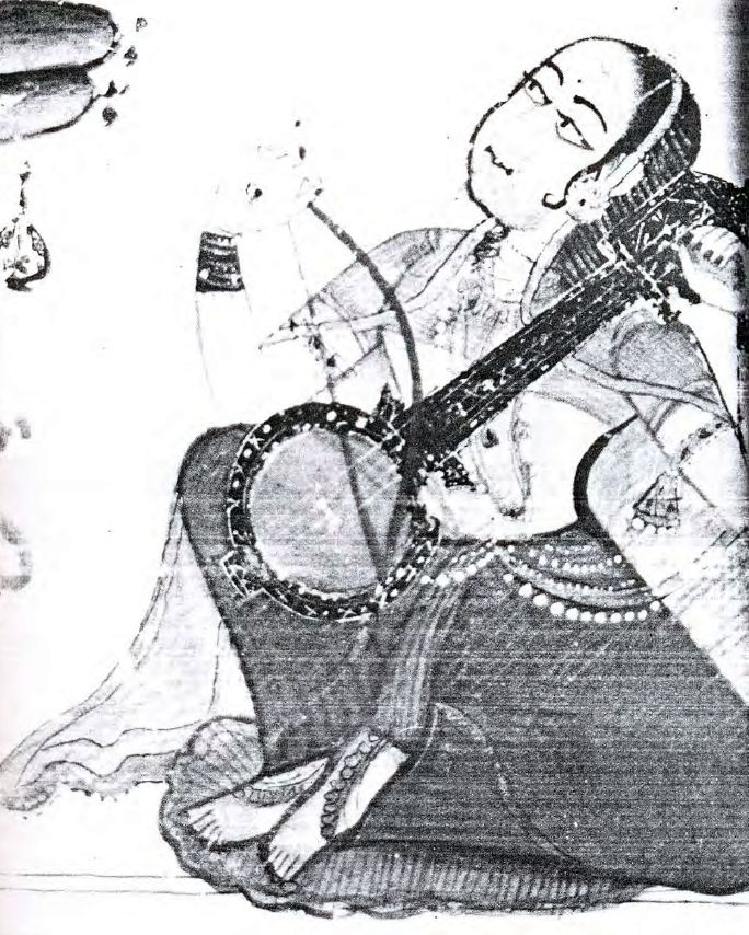 Mughal painting from Bundi, girl playing a string instrument